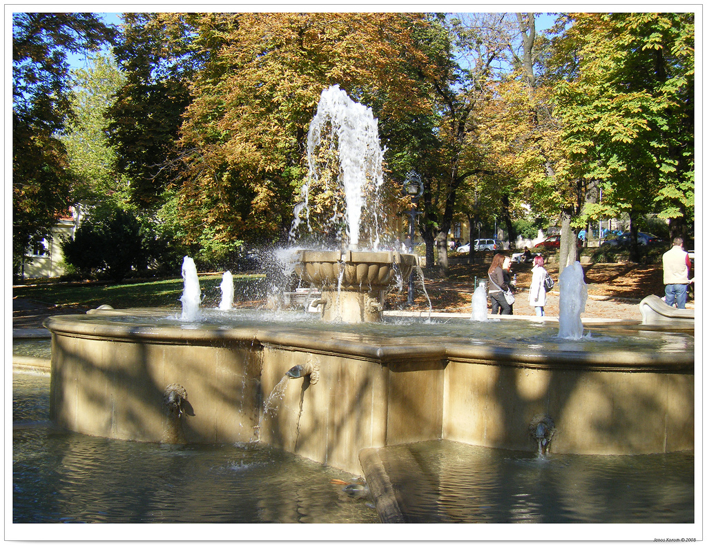 Fountain on Saint Steven Square (Szent István tér)